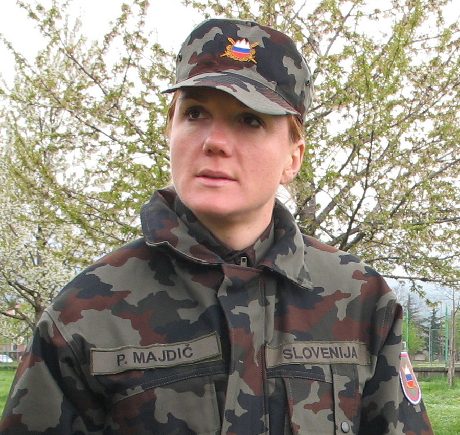 Petra Majdič in military uniform.